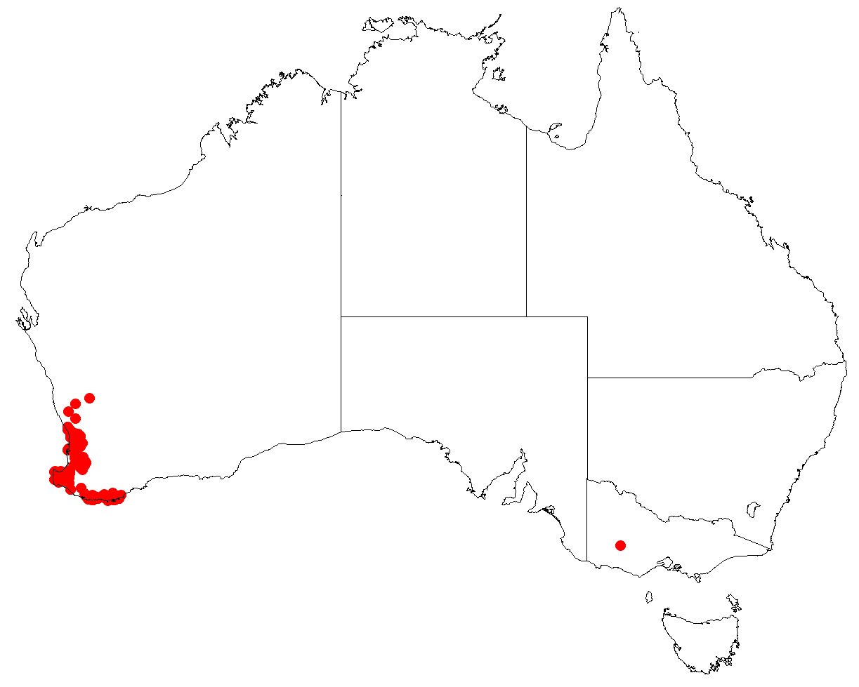 Allocasuarina fraseriana occurrence data from Australasian Virtual Herbarium download 4 July 2018